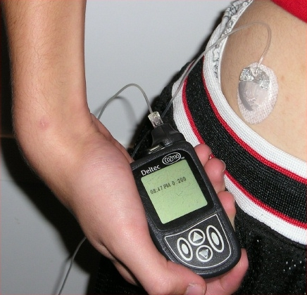 mbbradford, i made this image myself